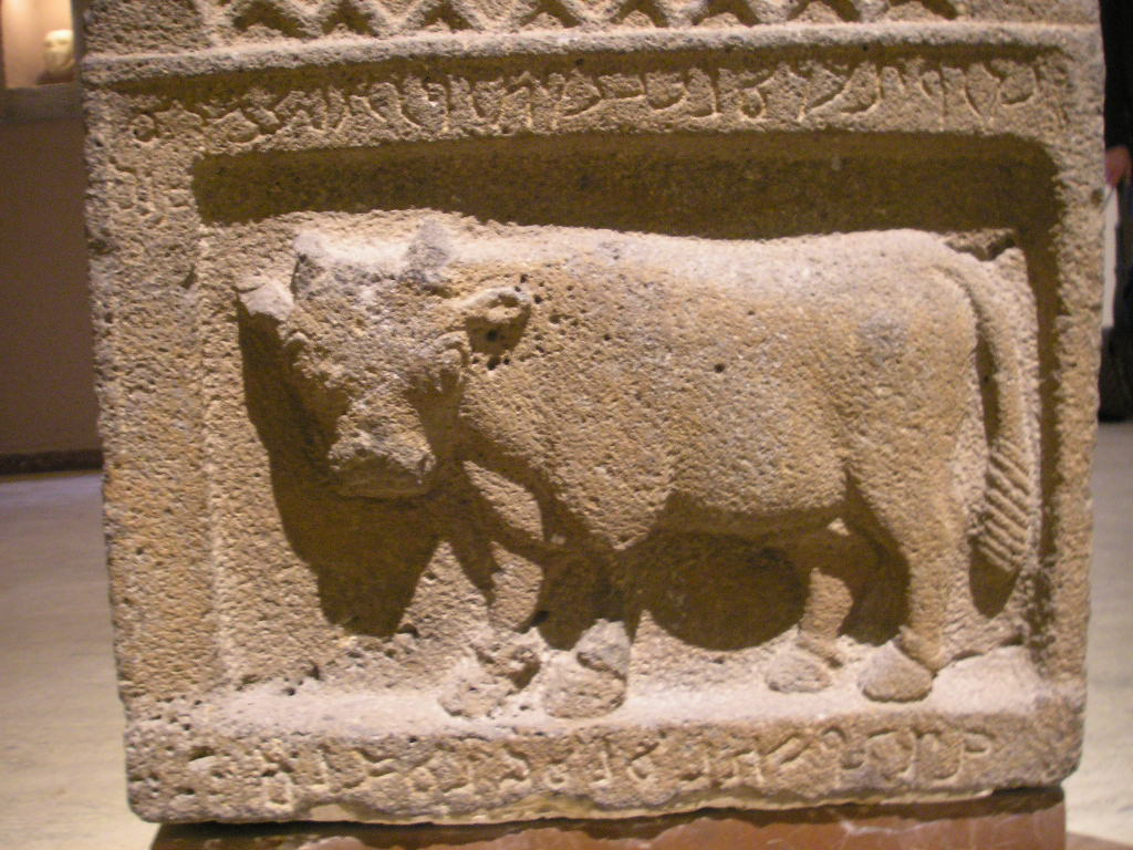 Altar (sunak) with a hole for votive offering a bull's head in relief and an Aramaean inscription. 1st century CE. Sueyda (Palestine) (Sidon?). Basalt. Inv. No. 7665.